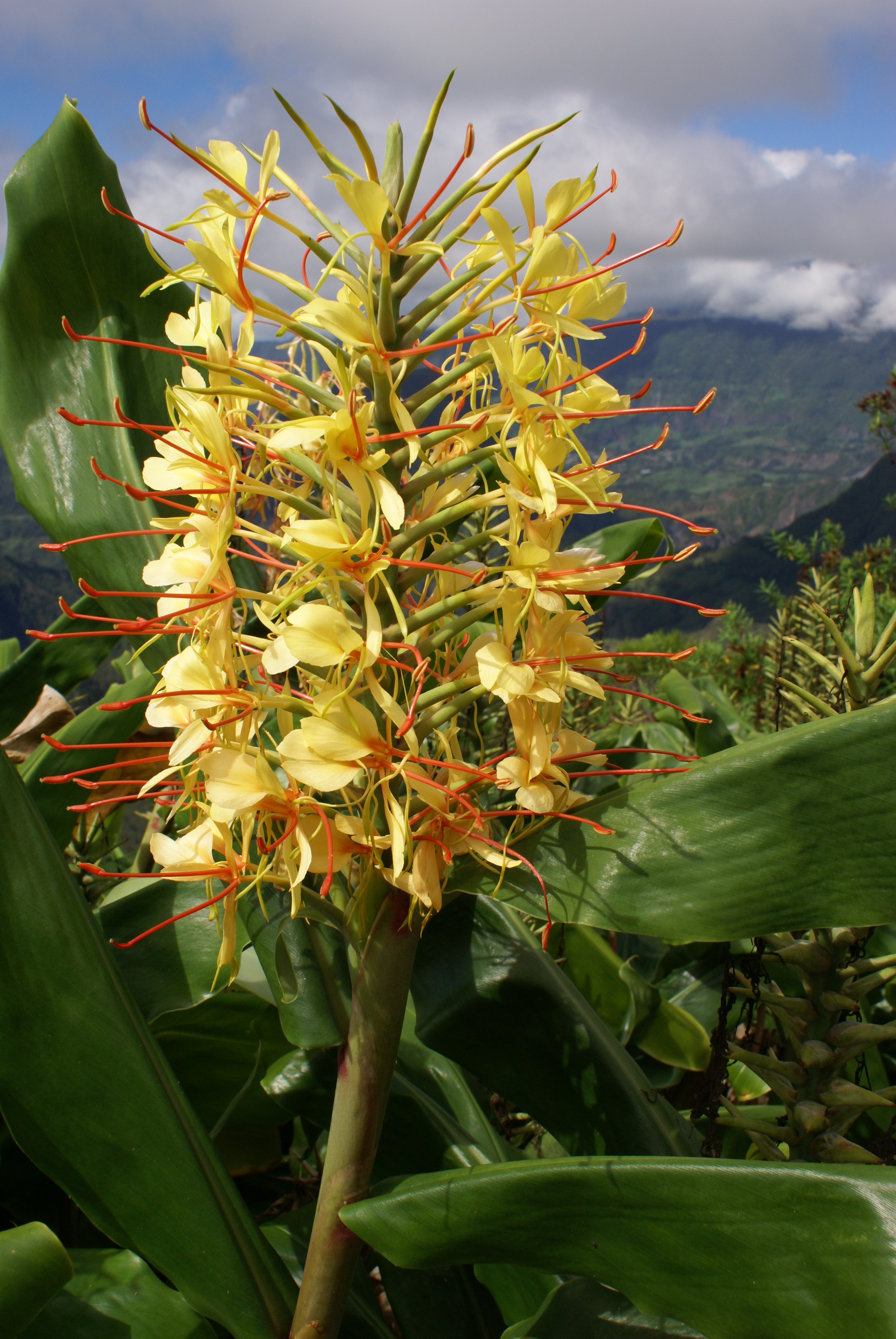 Introduced flowers, such as this Kahili Ginger, once for its delicate scent, from its native Himalayan mountains to Réunion island, may become terrible invaders that cause much trouble to the vulnerable ecosystems of isolated islands.